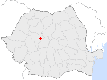 Location of Blaj in Romania.